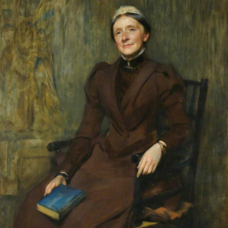 Marion Kennedy in 1892 by James Jebusa Shannon who died in 1923. Painting owned by Newnham College, University of Cambridge